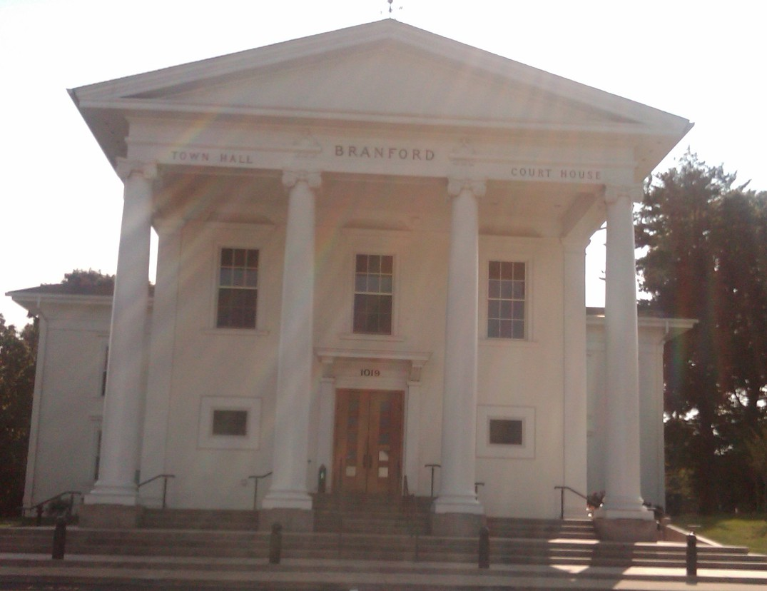 Town hall of Branford, Connecticut.